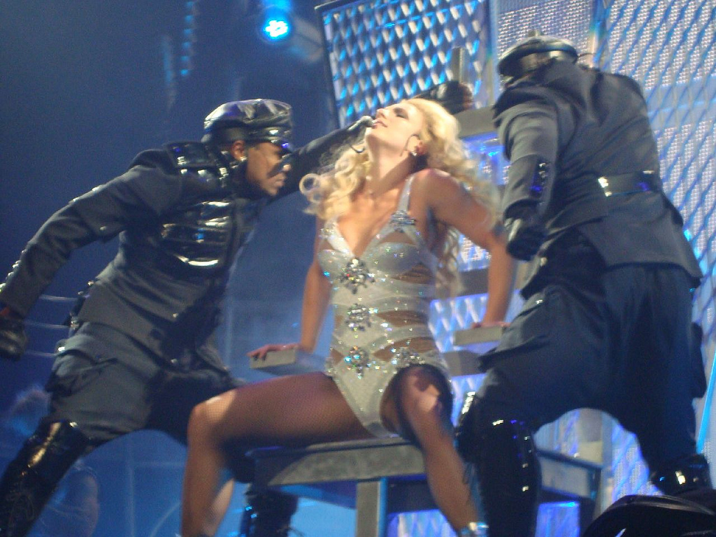 Britney Spears performing "Hold it against me" in Vancouver, B.C.